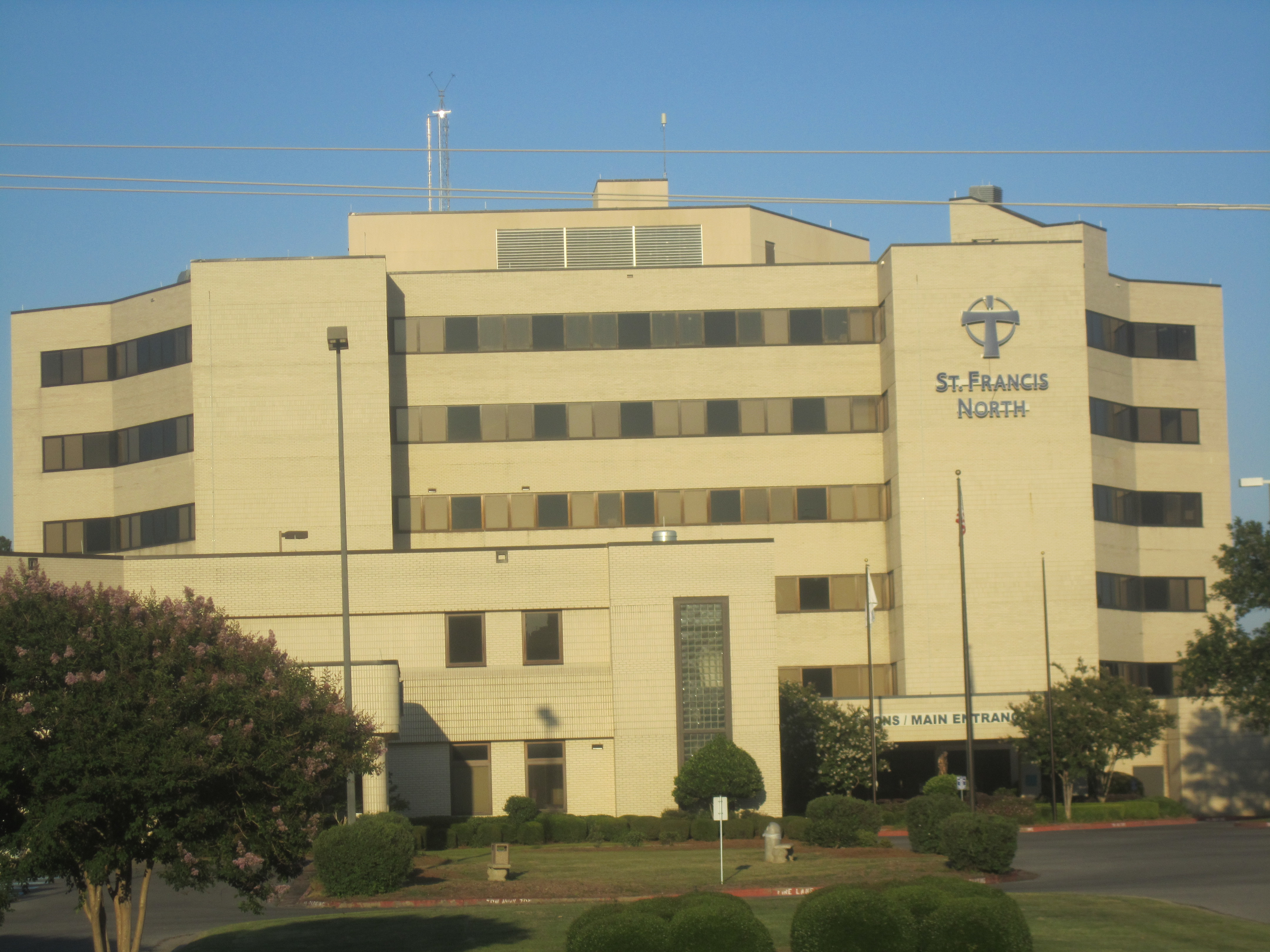 I took photo of St. Francis North Hospital off U.S. Highway 165 in Monroe, LA, with Canon camera.